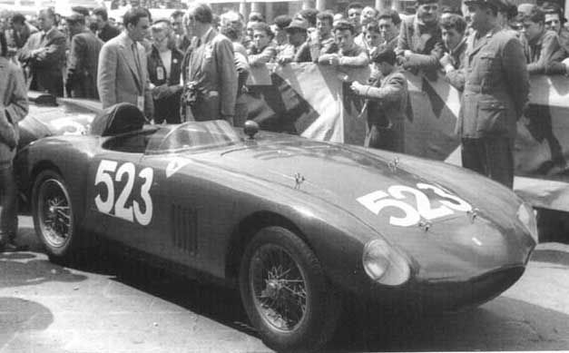 This car is a Ferrari 500 at Mille Miglia in Italia (probably Brescia) on 1 May 1954. It was driven by Vittorio Marzotto (not in the picture) to 2nd place overall. There is some evidence that suggests this particular car was the 1954 Ferrari 500 Mondial Pinin Farina s/n 0404MD .[1] Perhaps later renumbered as s/n 0434MD.[2] (Or maybe not).